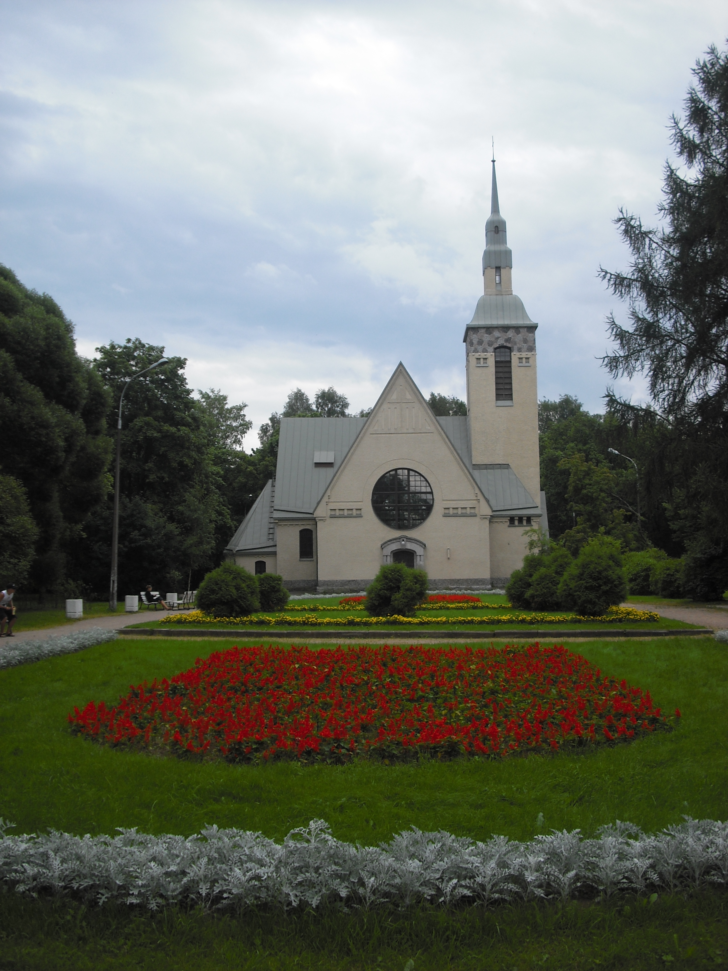 Zelenogorsk (Russia)